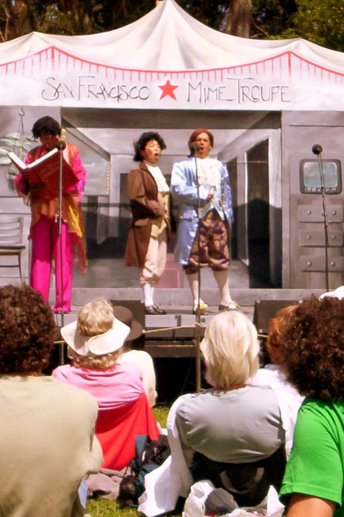 2006 San Francisco Mime Troupe performance of "Godfellas"